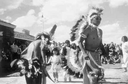 Kaibab Paiute Indians dance at the opeing ceremony of the joint visitor center of the paiute people and Pipe Spring National Monument, Pipe Spring National Monument, Arizona